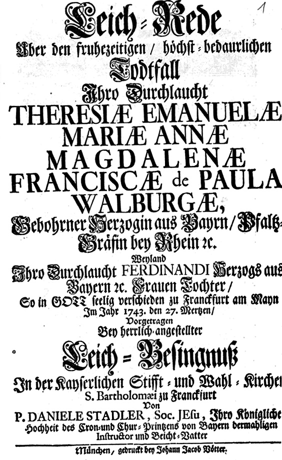 Theresia Emanuela von Bayern (1723-1743), Leichenpredigt von Daniel Stadler S.J., 1743